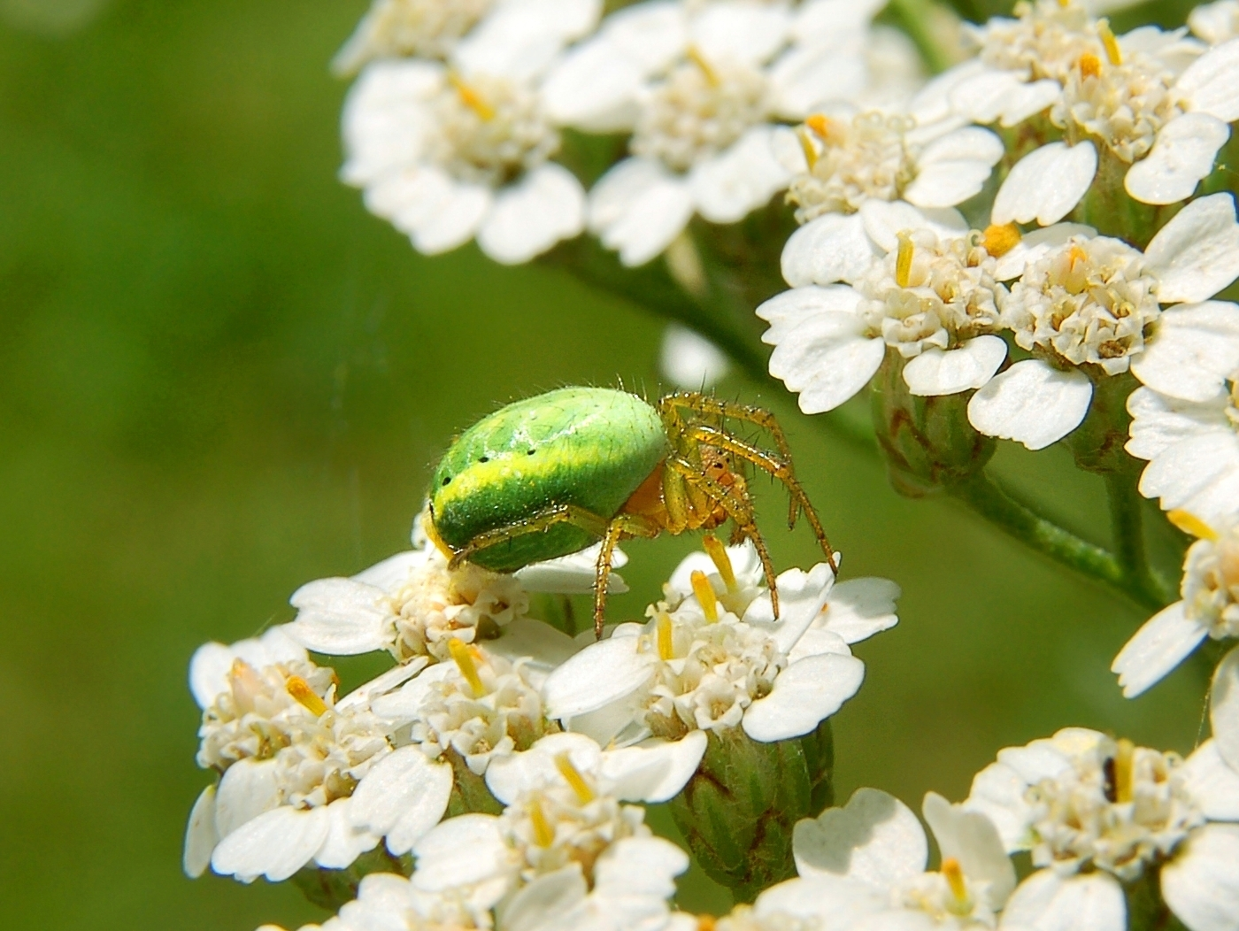 Araniella cucurbitina in Hamois, Belgium.